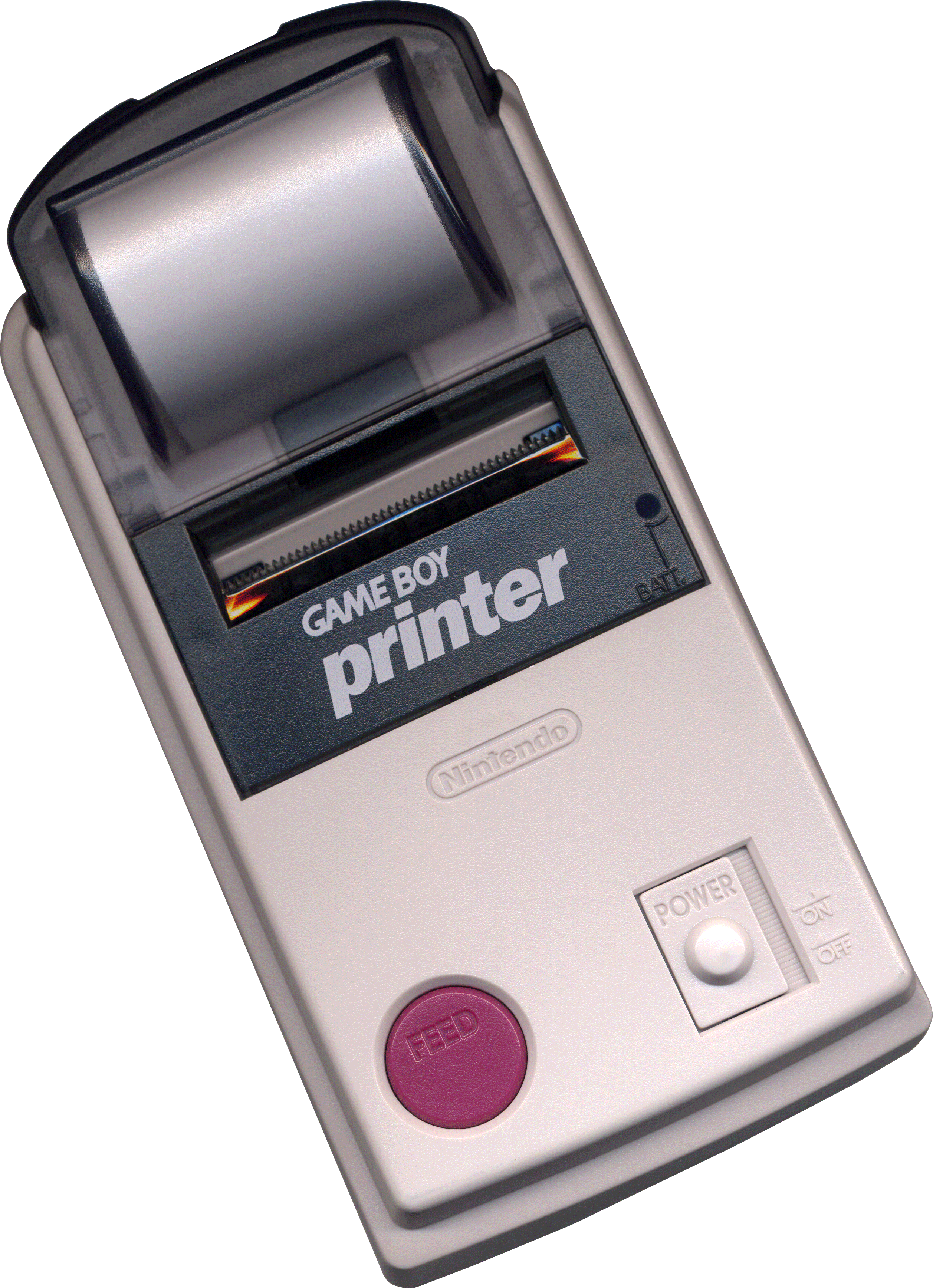 Scan of the Game Boy Printer peripheral.